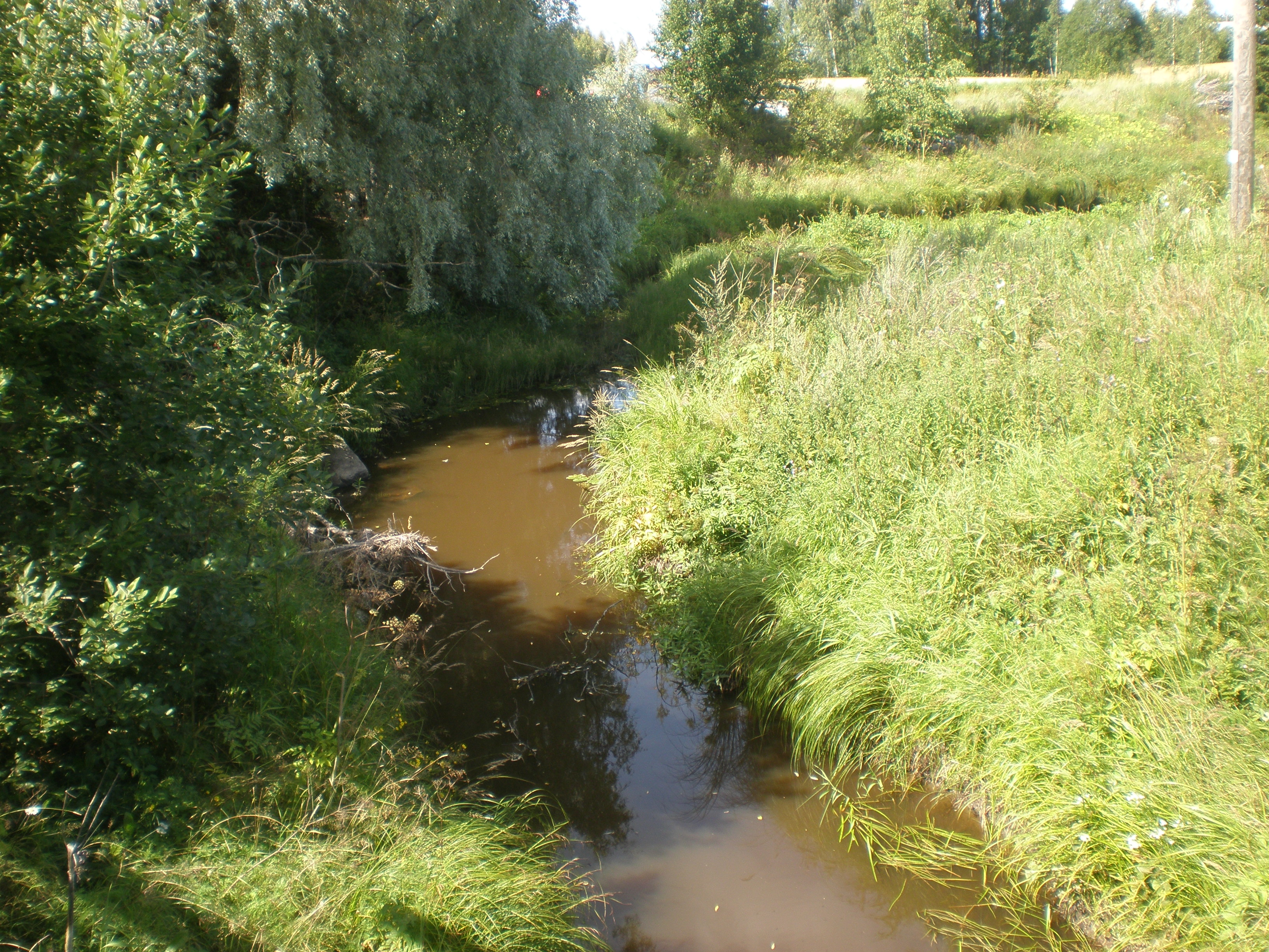 River Sammaljoki at village Sammaljoki